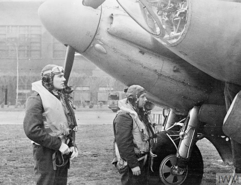 Operation OYSTER, the daylight attack on the Philips radio and valve works at Eindhoven, Holland, by No. 2 Group. Wing Commander H I Edwards VC (left), leader of the De Havilland Mosquito B Mark IVs of Nos. 105 and 139 Squadrons RAF on the raid, and his navigator approach their aircraft before taking off from Marham, Norfolk.